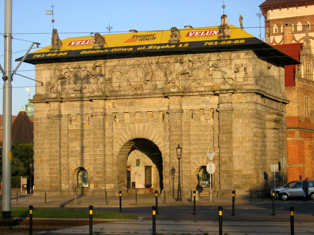 Gdańsk, Poland, Upland-Gate. Willem van den Blocke, 1587-88.